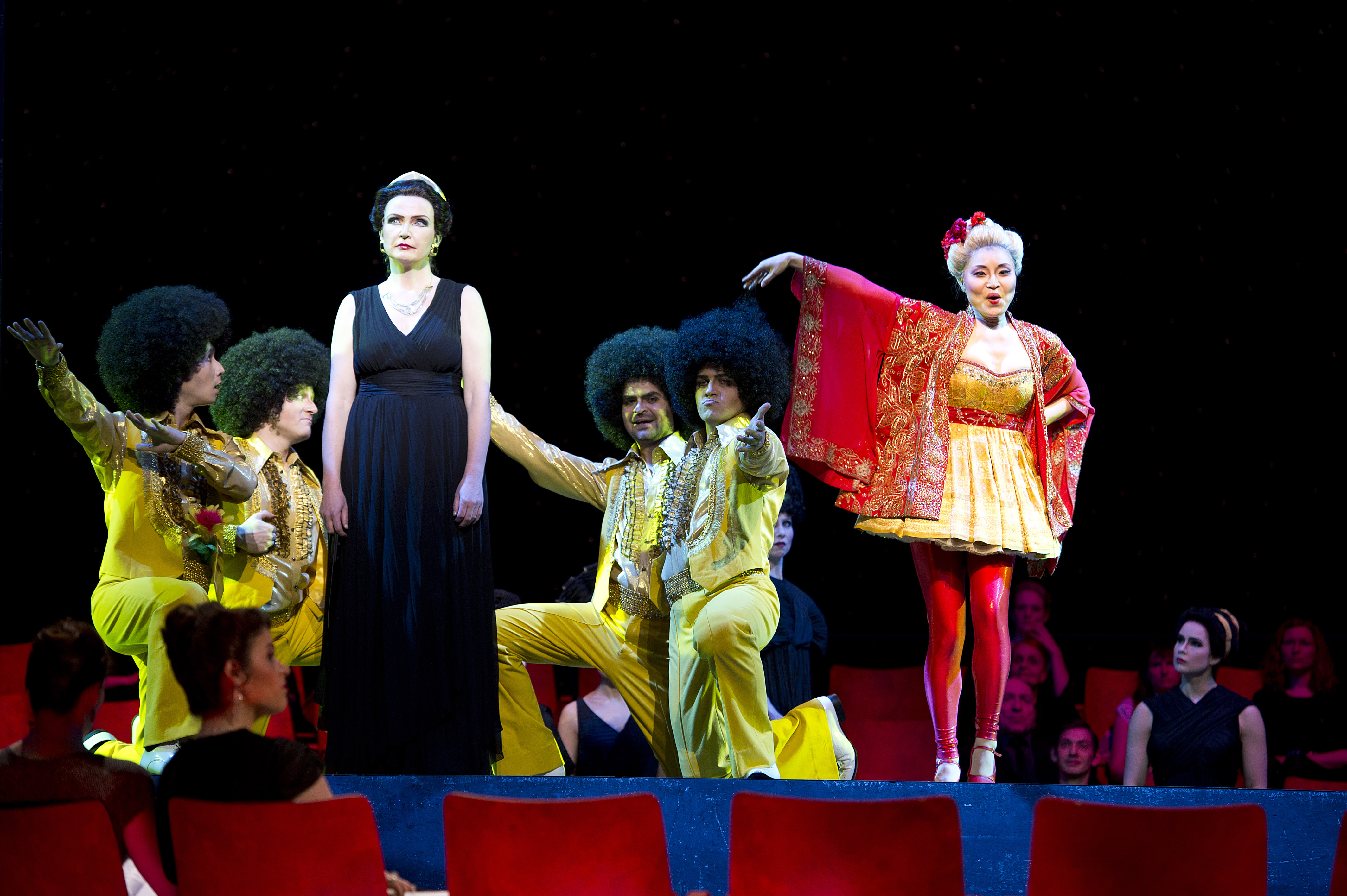 Production of Ariadne auf Naxos at Hamburgische Staatsoper 2012, stage photo: Jun-Sang Han as Brighella (kneeling, first from left), Chris Lysack as Scaramuccio (kneeling, second from left), Anne Schwanewilms as Primadonna / Ariadne (standing, in black dress), Viktor Rud as Harlekin (kneeling, fourth from left), Adrian Sampetrean as Truffaldin (kneeling, fifth from left), Hayoung Lee as Zerbinetta (standing, in gold dress), Extras.